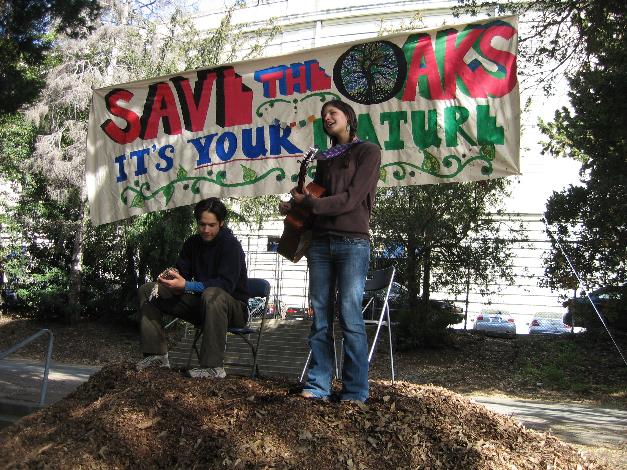 photos from the Save the Oaks at Memorial Stadium in Berkeley press conference and festival, 1/20/07